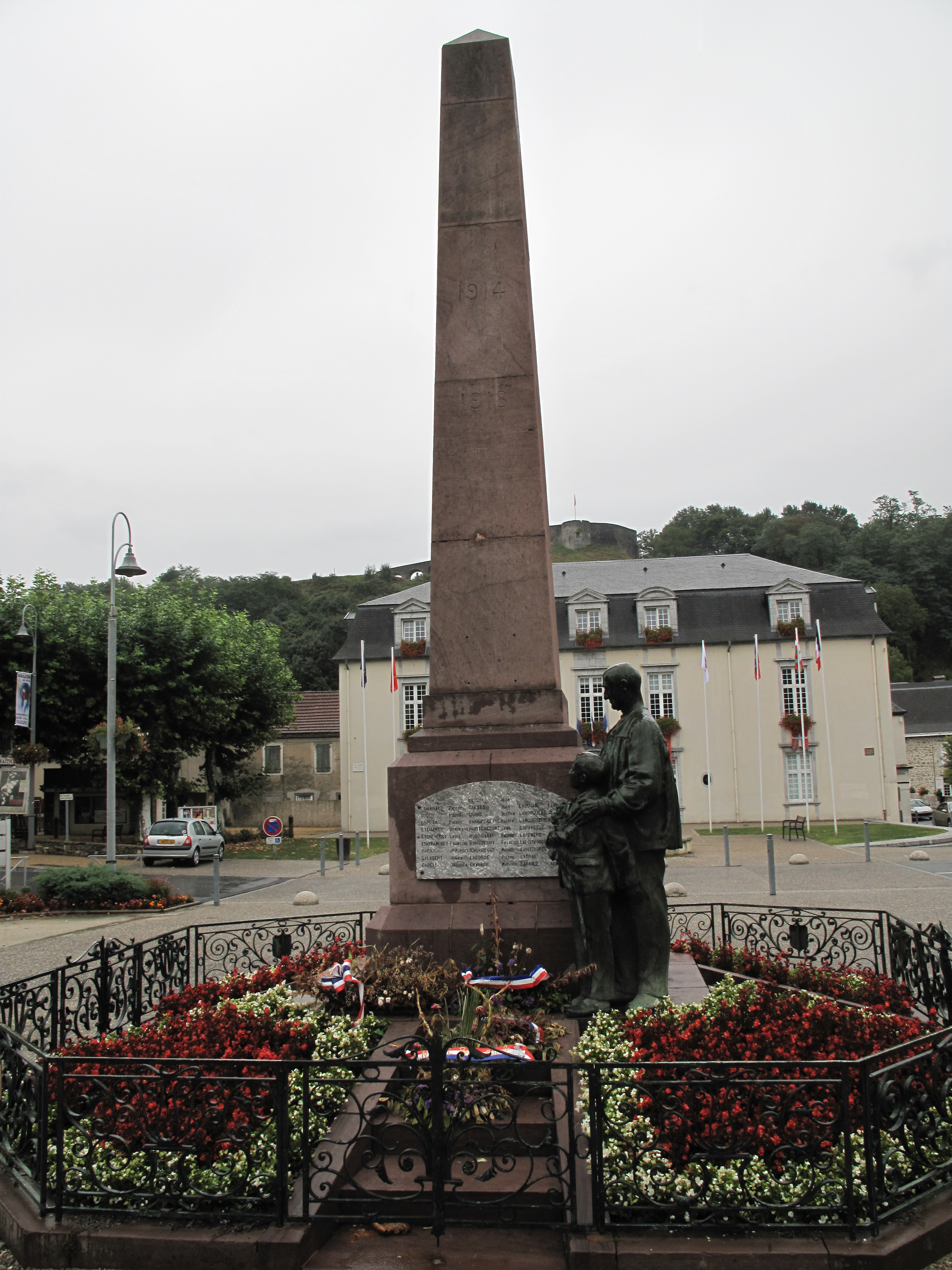 War memorial in Mauléon-Licharre, Pyrénées-Atlantiques, France